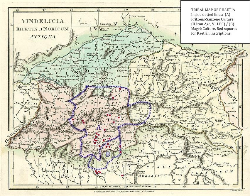 Map based on Roman provinces (Rhaetia, Noricum), which includes tribes and now the areas of the Iron Age cultures of Fritzens-Sanzeno and Magrè (as shown in of the University of Munich), and Raetic inscriptions (as stated in Adolfo Zavaroni webpage